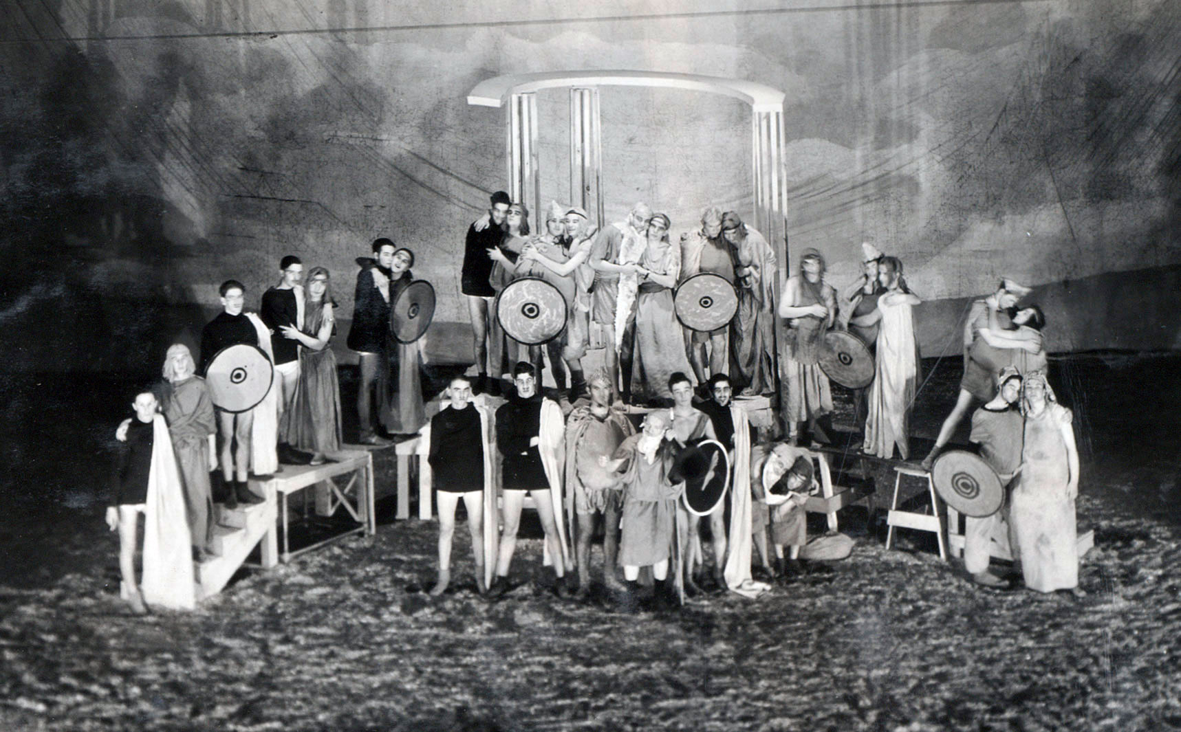 Detail of cast photo from the University of Wisconsin Experimental College 1928 production of Lysistrata, via the UW Archives Meuer collection